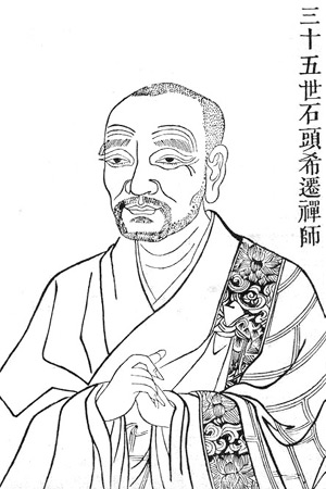 Shitou Xiqian (700－790), a Tang Dynasty Buddhist monk. Wood-block print 1880 book, captioned:「三十五石頭希遷禪師」